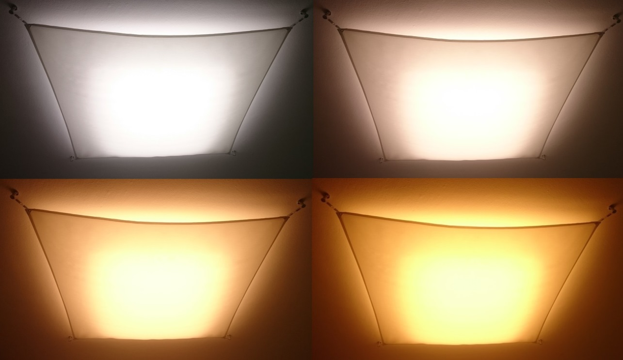 LED sail lamp Tunable White mixed variable cool white and warm white light. The color temperature is dynamically adjustable and dimmable from 2500K to 6500K.